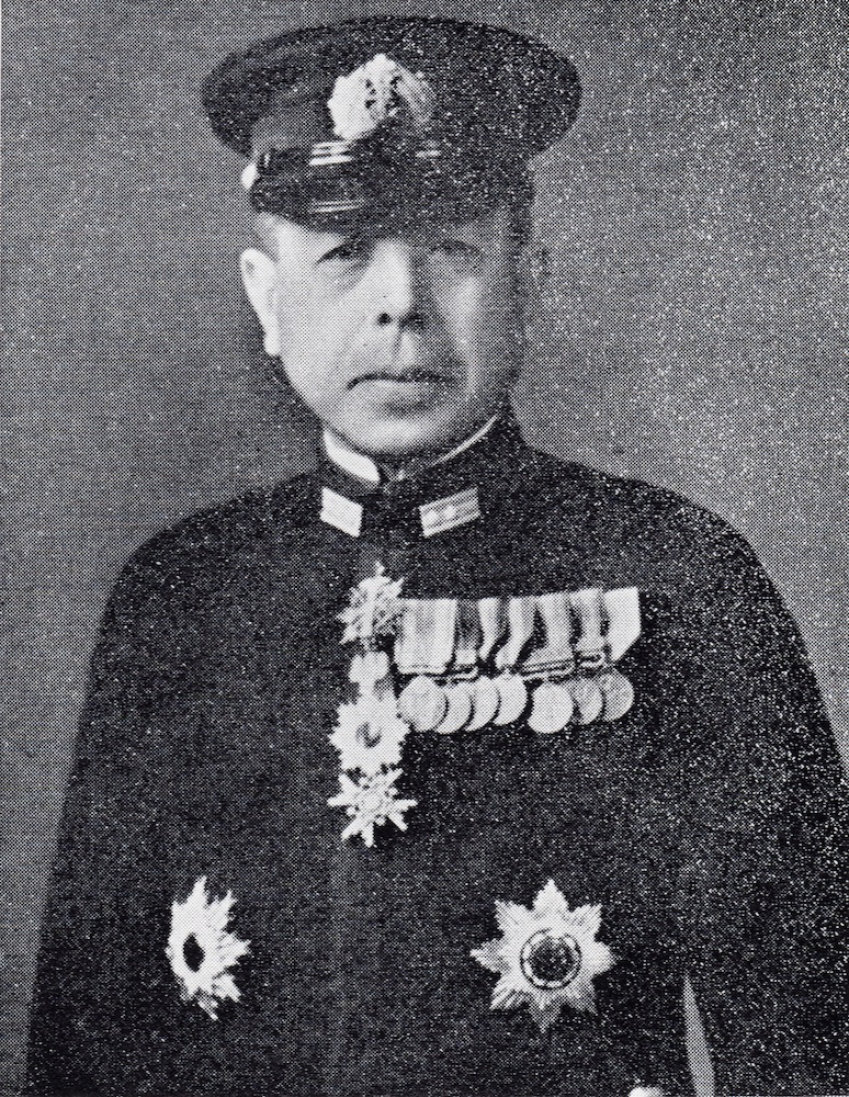 Vice Admiral Torao Kuwahara